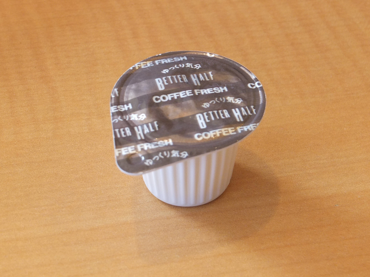 A type of non-dairy creamer. In Japan, It is called as "coffee fresh" or "milk".